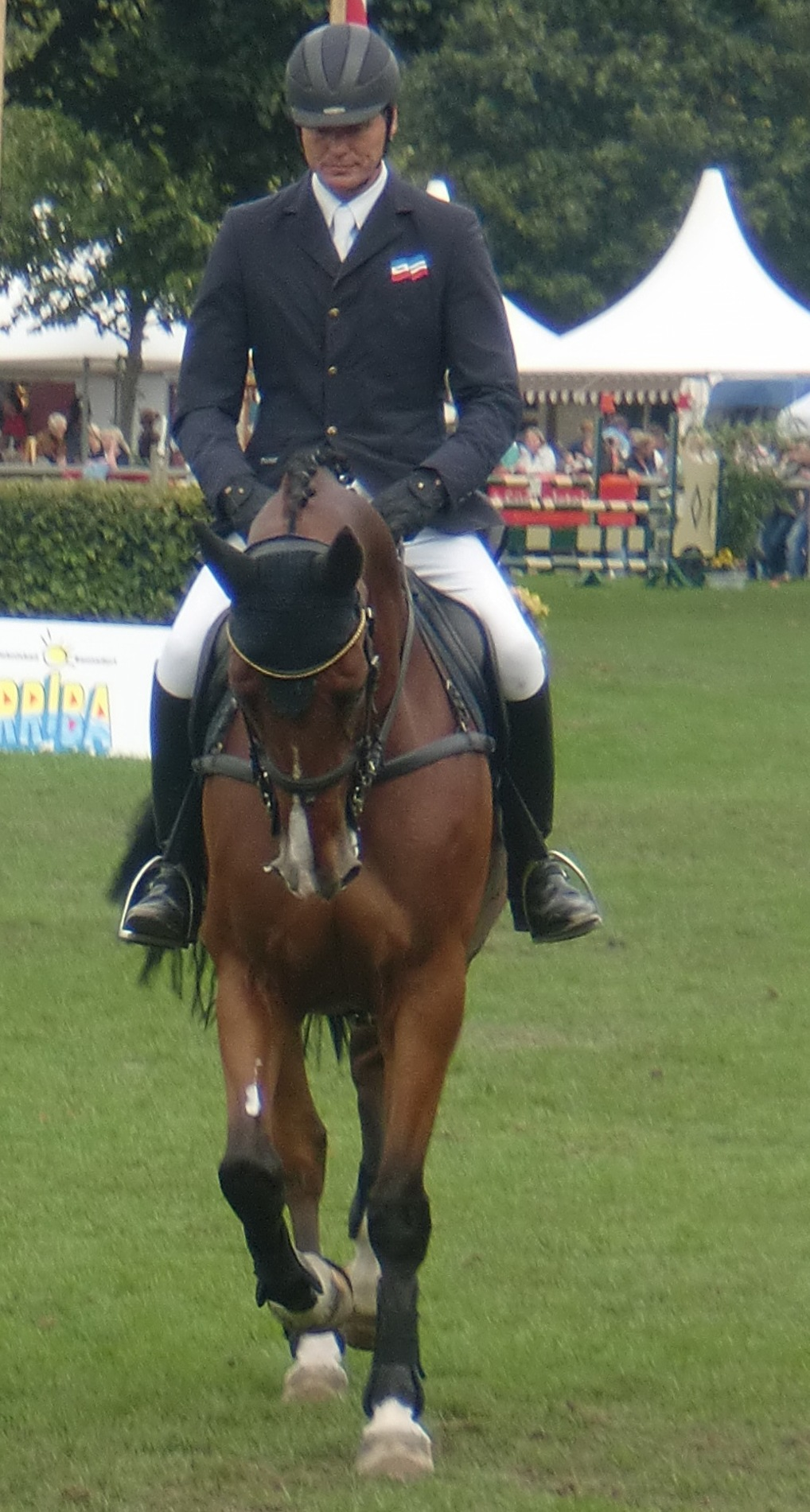 Sören von Rönne and Rahmannshof's Cumana, Landesturnier Schleswig-Holstein / Hamburg (state championship of Schleswig-Holstein and Hamburg in Bad Segeberg, September 2010